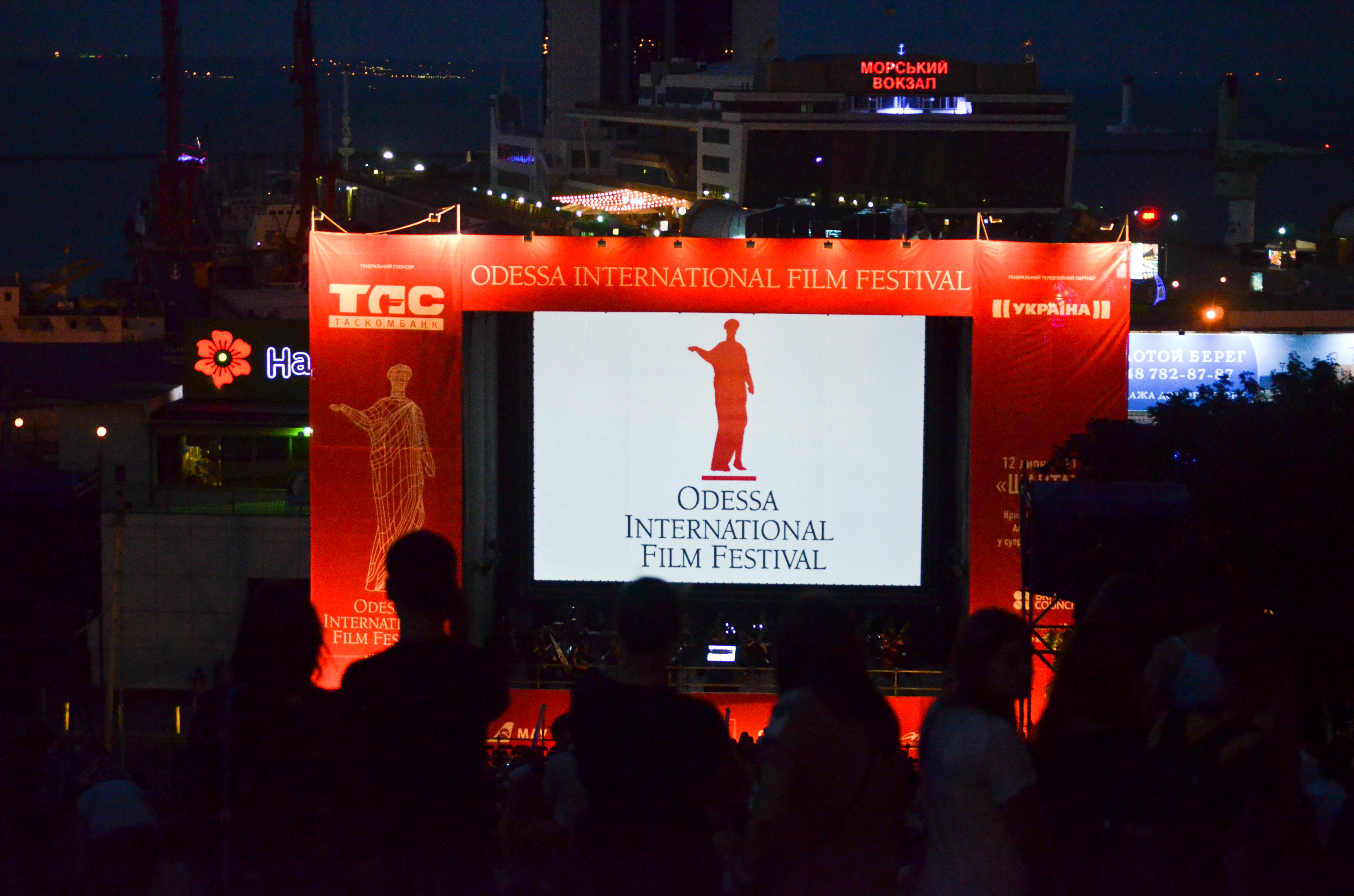 5th Odessa International Film Festival. Before the screening of "Blackmail" (1929) on Potemkin stairs.